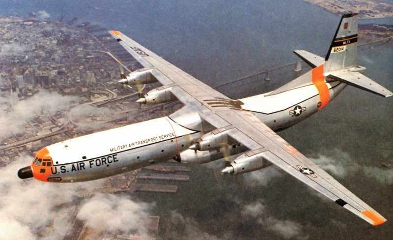 A U.S. Air Force Douglas C-133A-20-DL Cargomaster (s/n 56-2014) in flight. This aircraft was accepted by the USAF at Long Beach, California (USA), on 7 May 1959 and issued to the 1501st Air Transport Wing at Travis Air Force Base, California. In May 1960 it was reissued to the 1607th ATW at Dover AFB, Delaware. It crashed after takeoff from Goose Bay, Labrador (Canada), 7 November 1964, killing all seven crewmen.